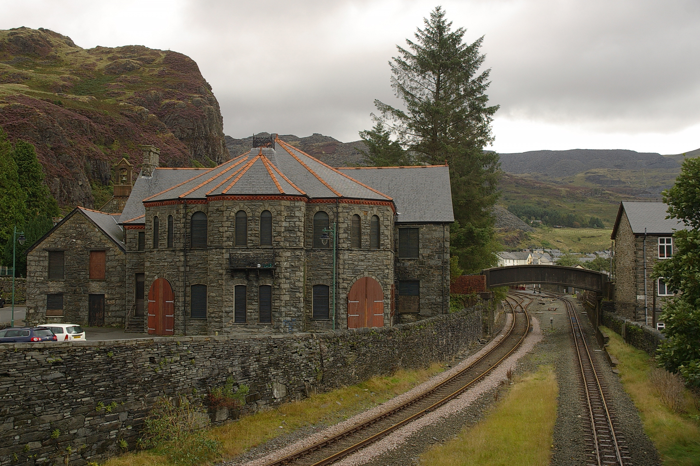 Looking east in to Blaenau Ffestiniog railway station.